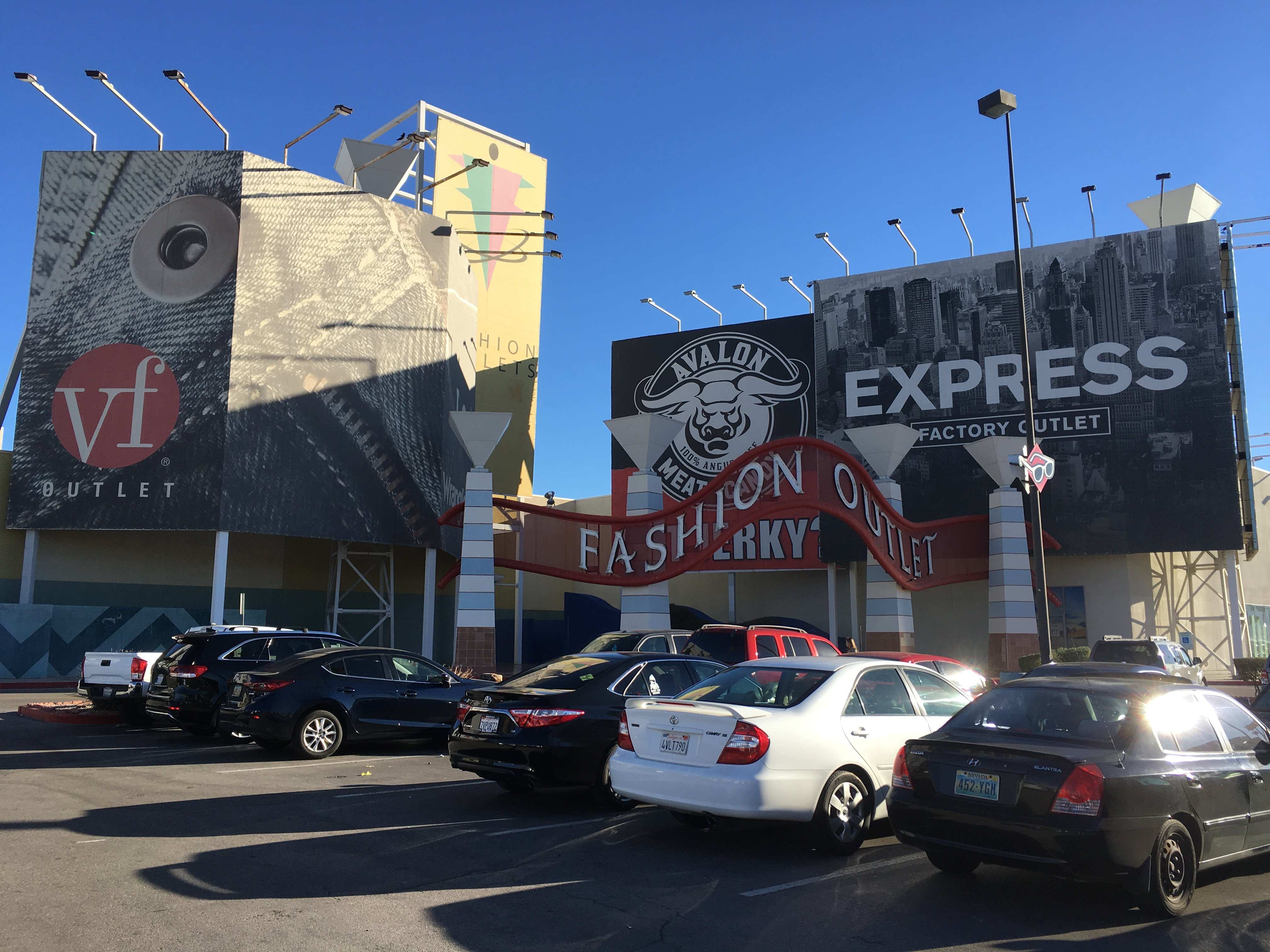 Entrance of the Fashion Outlets at Las Vegas in nearby Primm, Nevada.